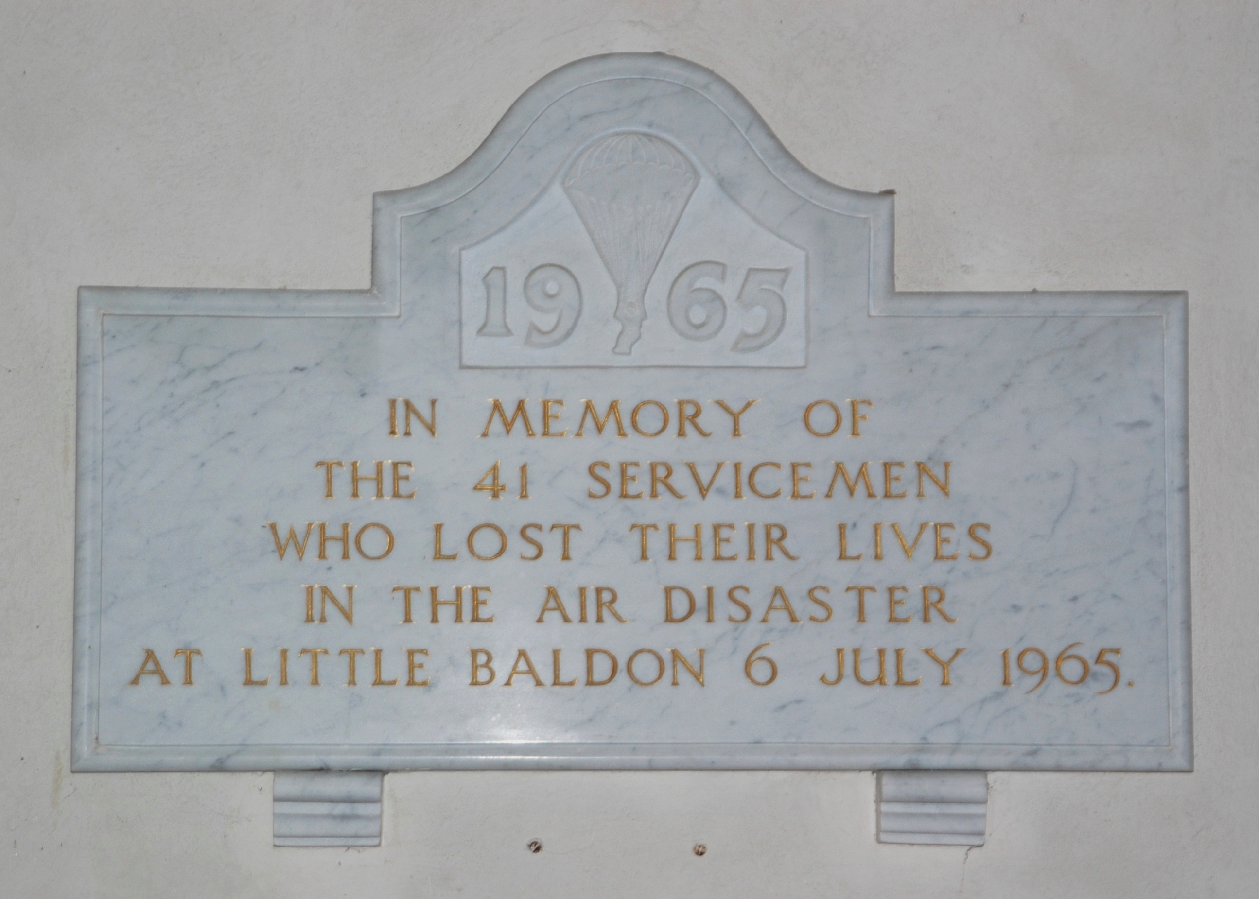 Wall-mounted marble plaque in St Lawrence' parish church, Toot Baldon, Oxfordshire, in memory of the 41 victims of the 1965 crash of an RAF Handley-Page Hastings at Little Baldon. The monument was installed in April 1967.